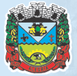 Coat of arms of Alegria - RS - Brazil.